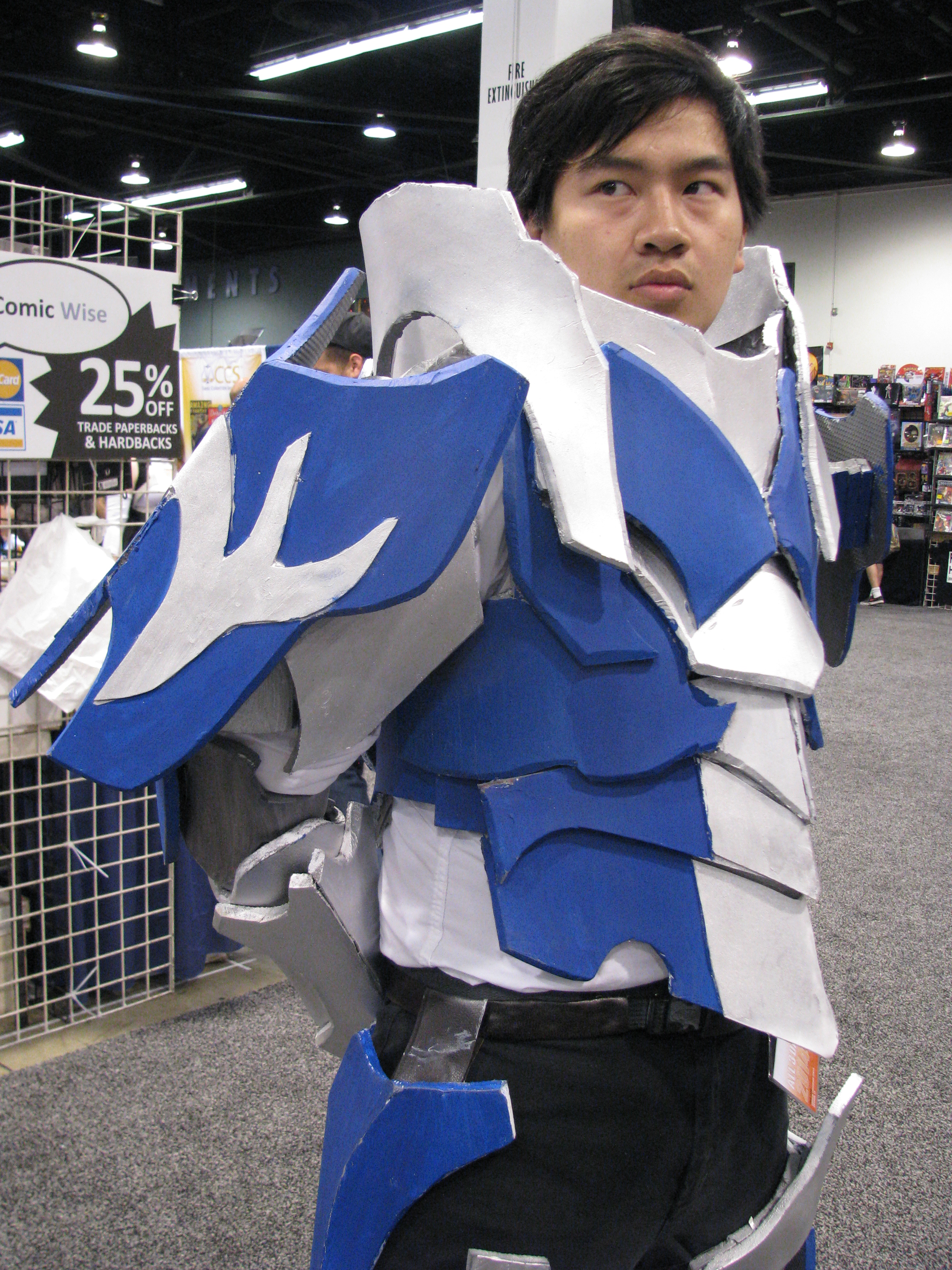 WonderCon 2014 - Frederick [Fire Emblem Awakening] Cosplay